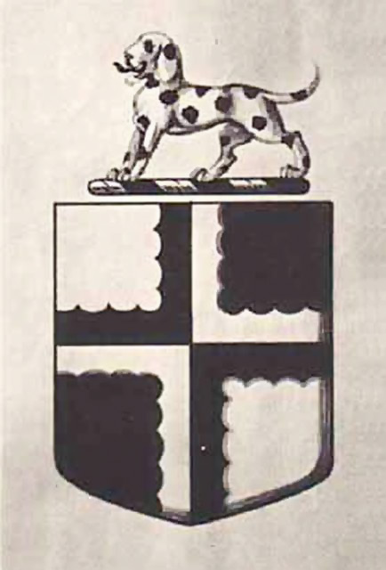 Arms of the Norfolk Line with their "Spotted dog."